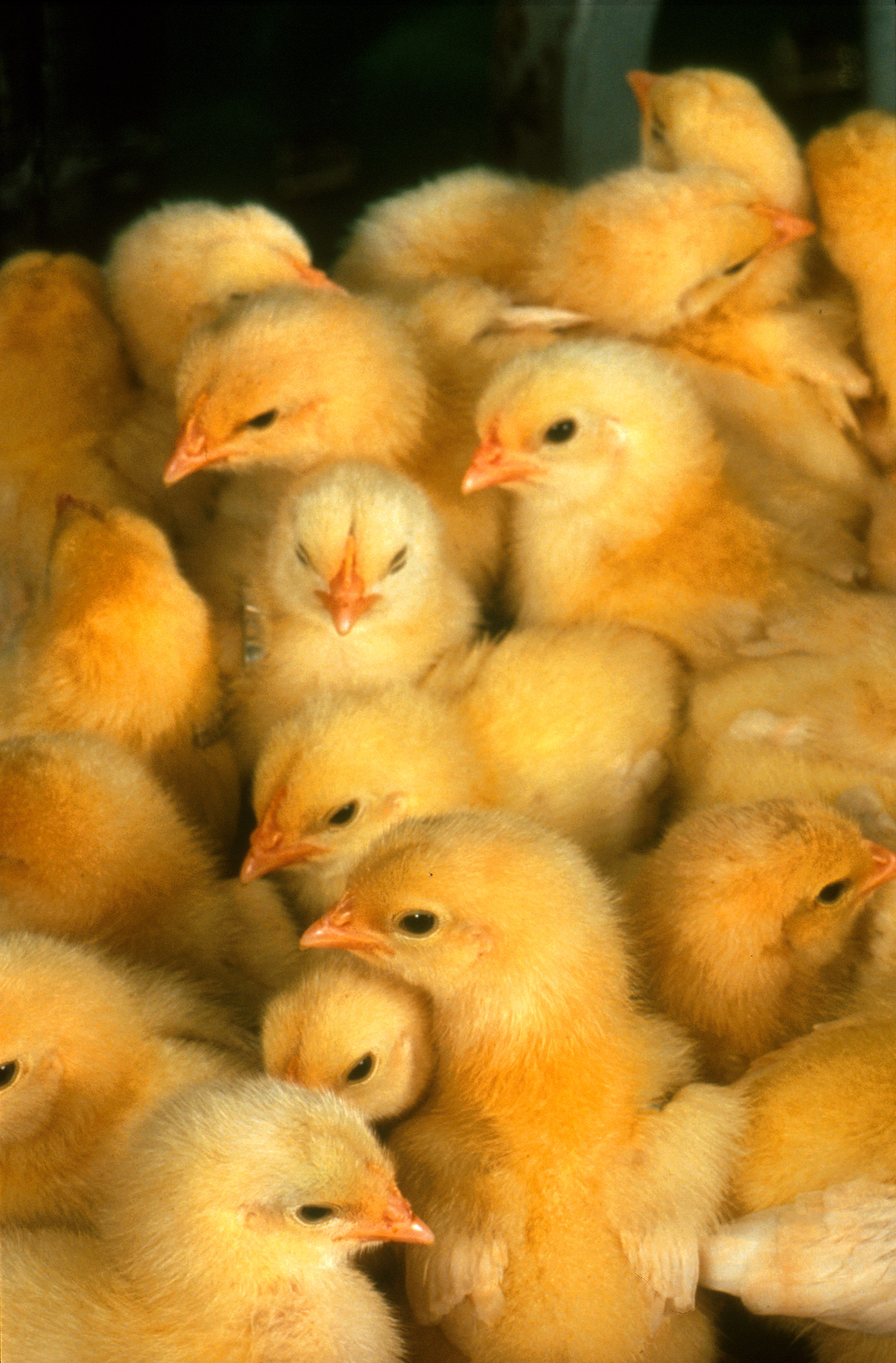 They're the Royal Canadian Mounties of the immune system-the heroes who show up in the nick of time-and they take on all bacterial invaders, be they salmonella, listeria, pasteurella, or E. coli. They're infection-fighting white blood cells called heterophils, and poultry immunologist Michael Kogut has found a way to make them do his bidding to protect young poultry.